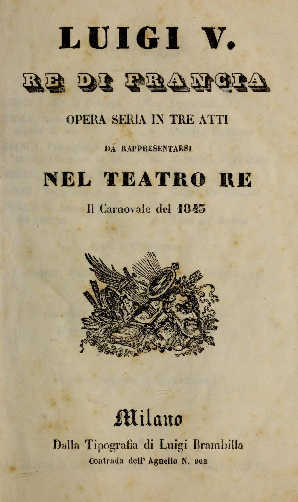 Titre page, libretto of the opera Luigi V, re di Francia, of Alberto Mazzucato (libretto by Felice Romani (Milano, 1843)